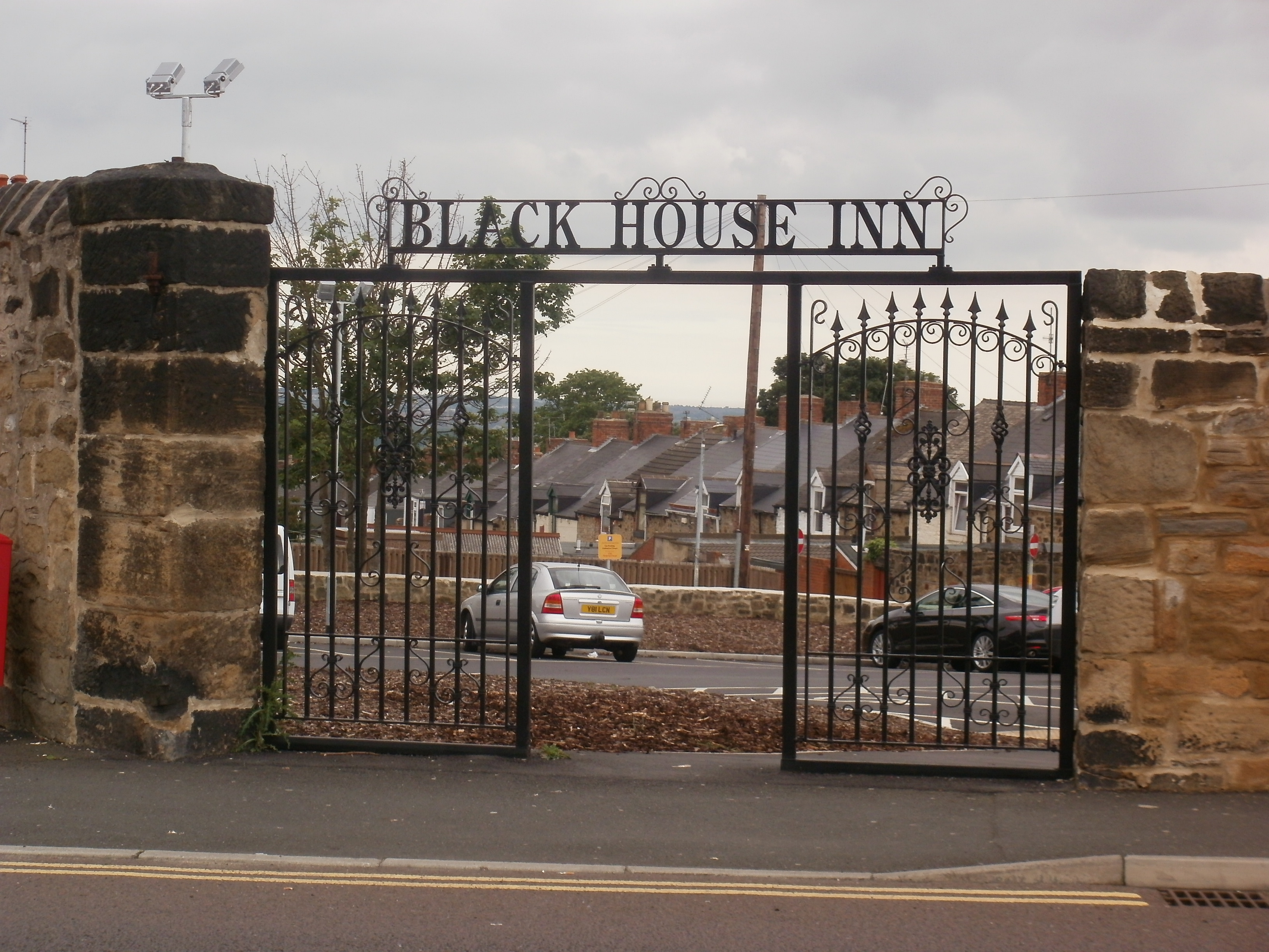 The last surviving reference to the Black House Inn, which was converted into a Tesco store in 2012.